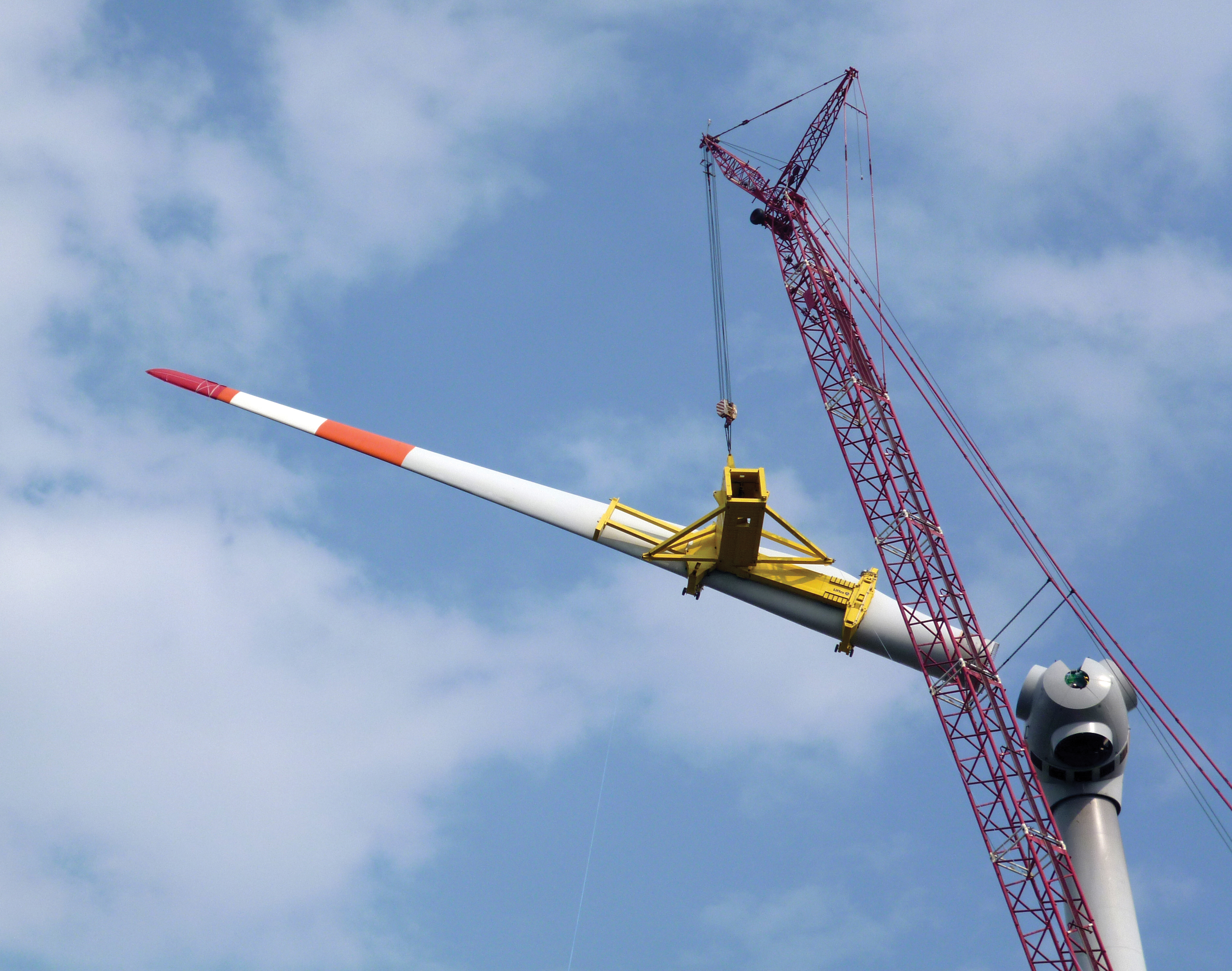 Blade Dragon installing a single blade wind turbine hub. Blade Dragon is developed and produced by Liftra ApS.